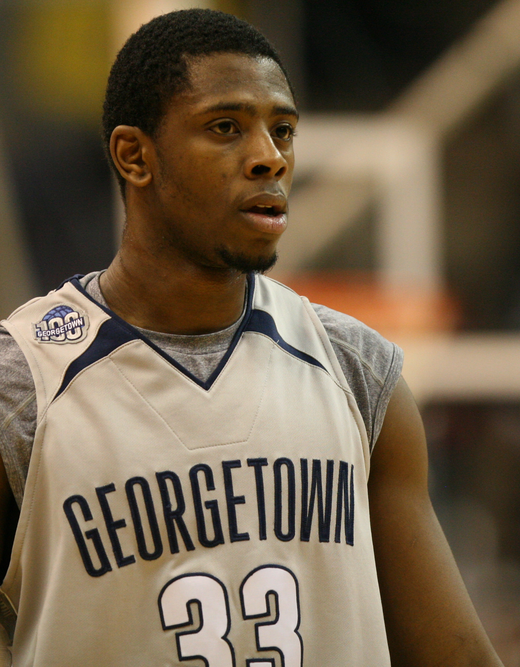 Patrick Ewing, Jr. at a game against the Oral Roberts Golden Eagles